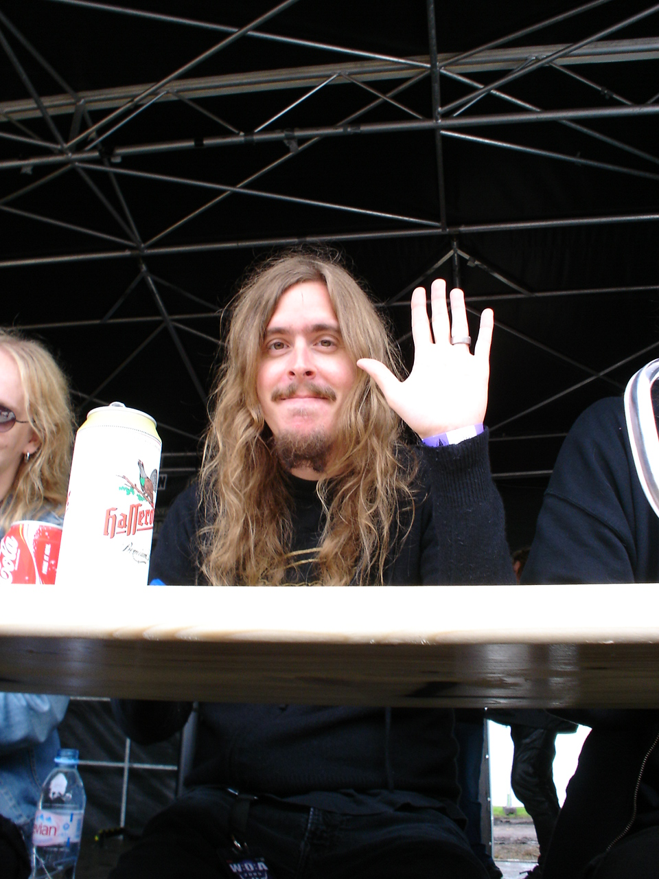 Mikael Akerfeldt from Opeth. Meet & Greet at Wacken Open Air 2005, Germany.